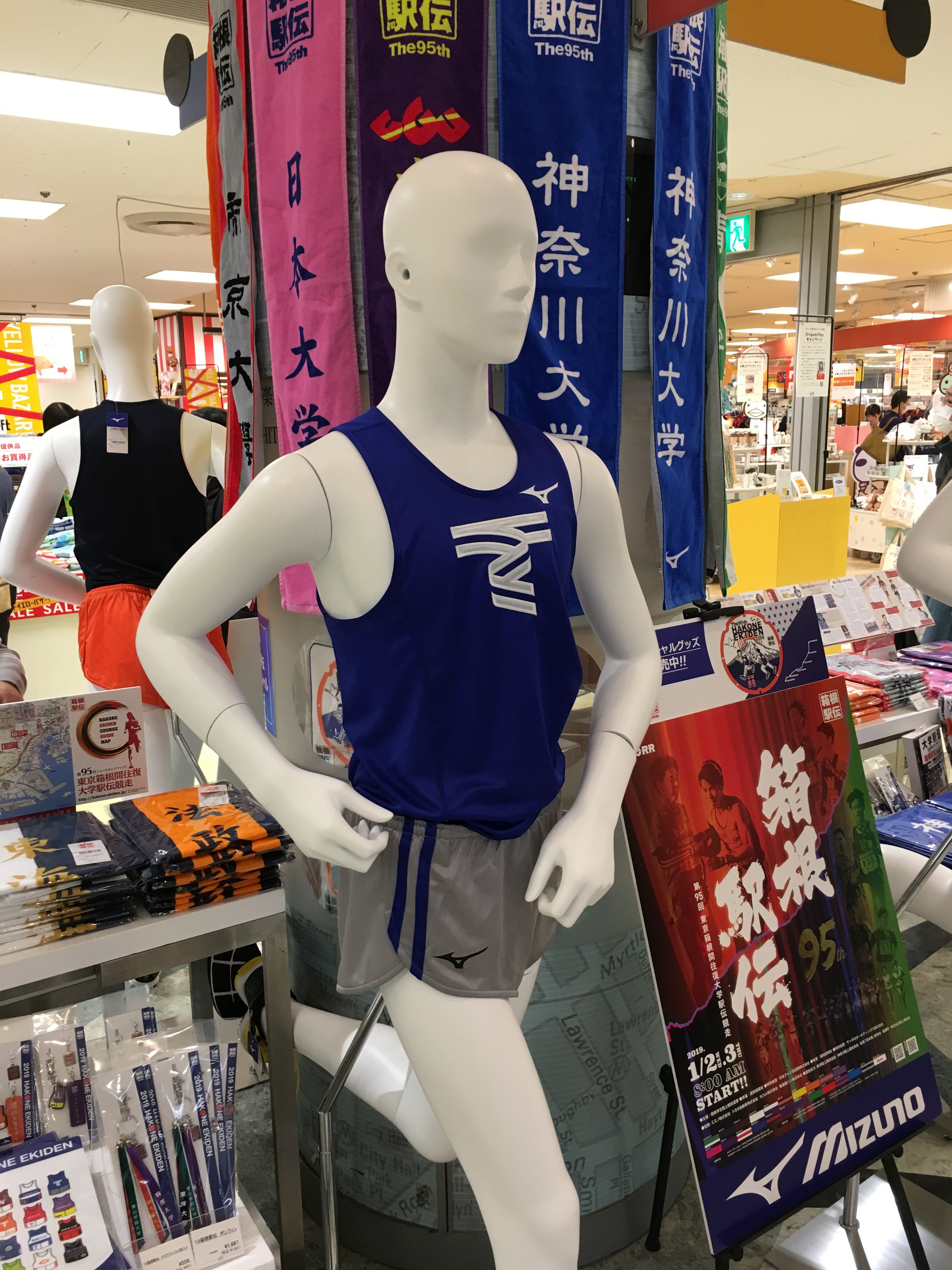 Tokai University, Track team uniform